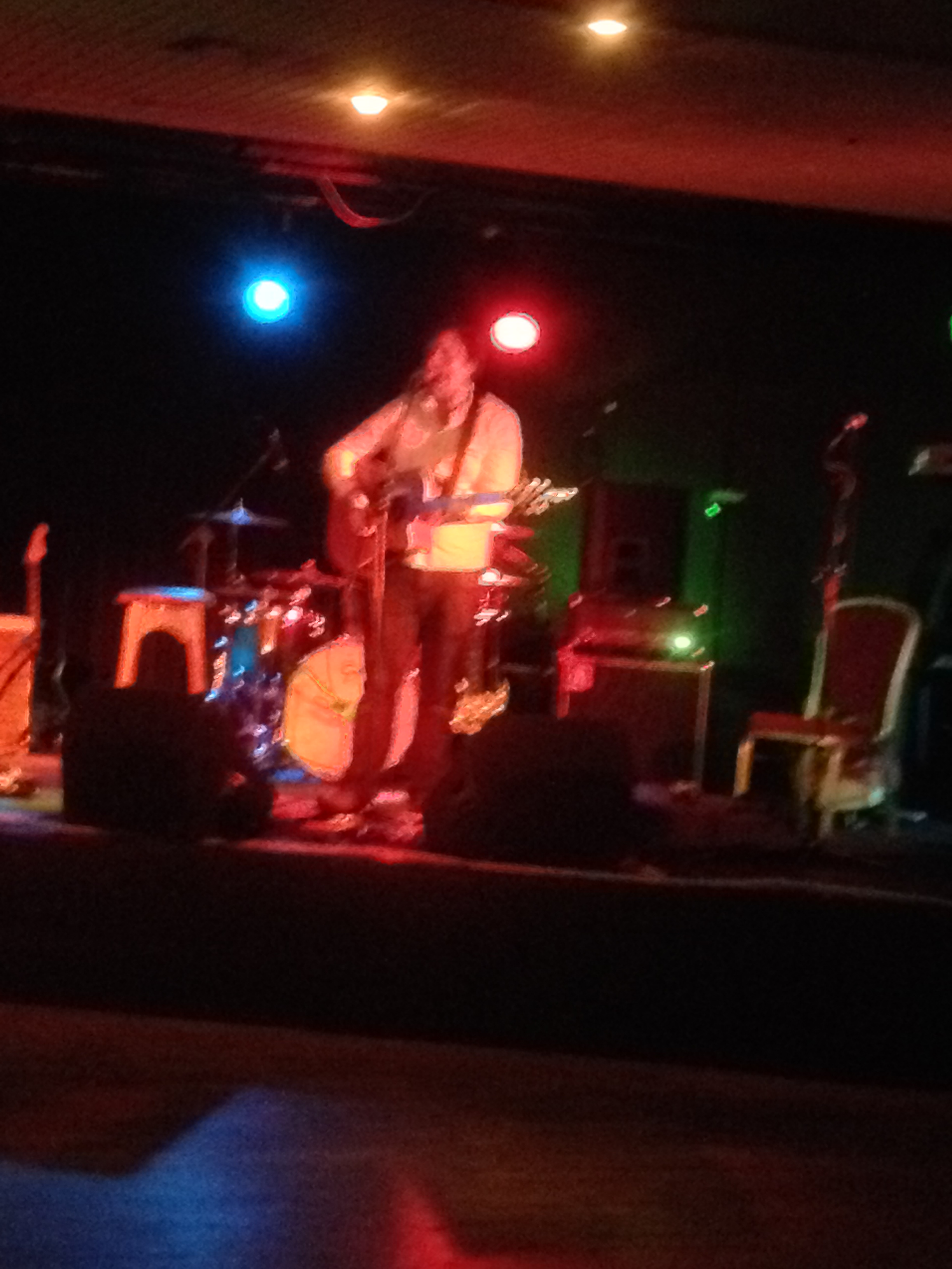 James Walsh, formerly of Starsailor, performing in a pub in Sallynoggin, Co. Dublin. October 2013.